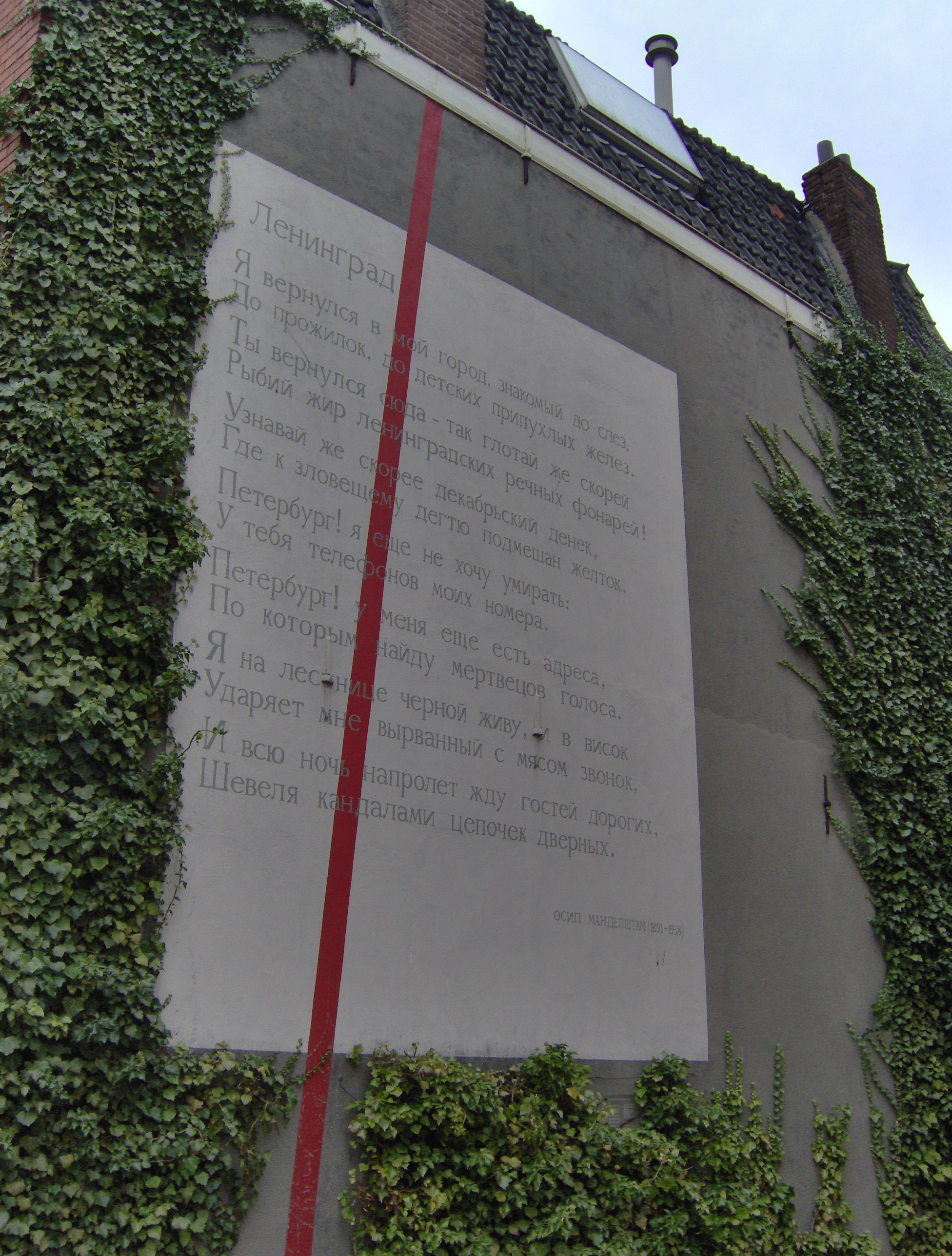 The poem Ленинград (Leningrad) of the Russian poet Osip Mandelstam on a wall of the building at the Haagweg 29 in Leiden, The Netherlands